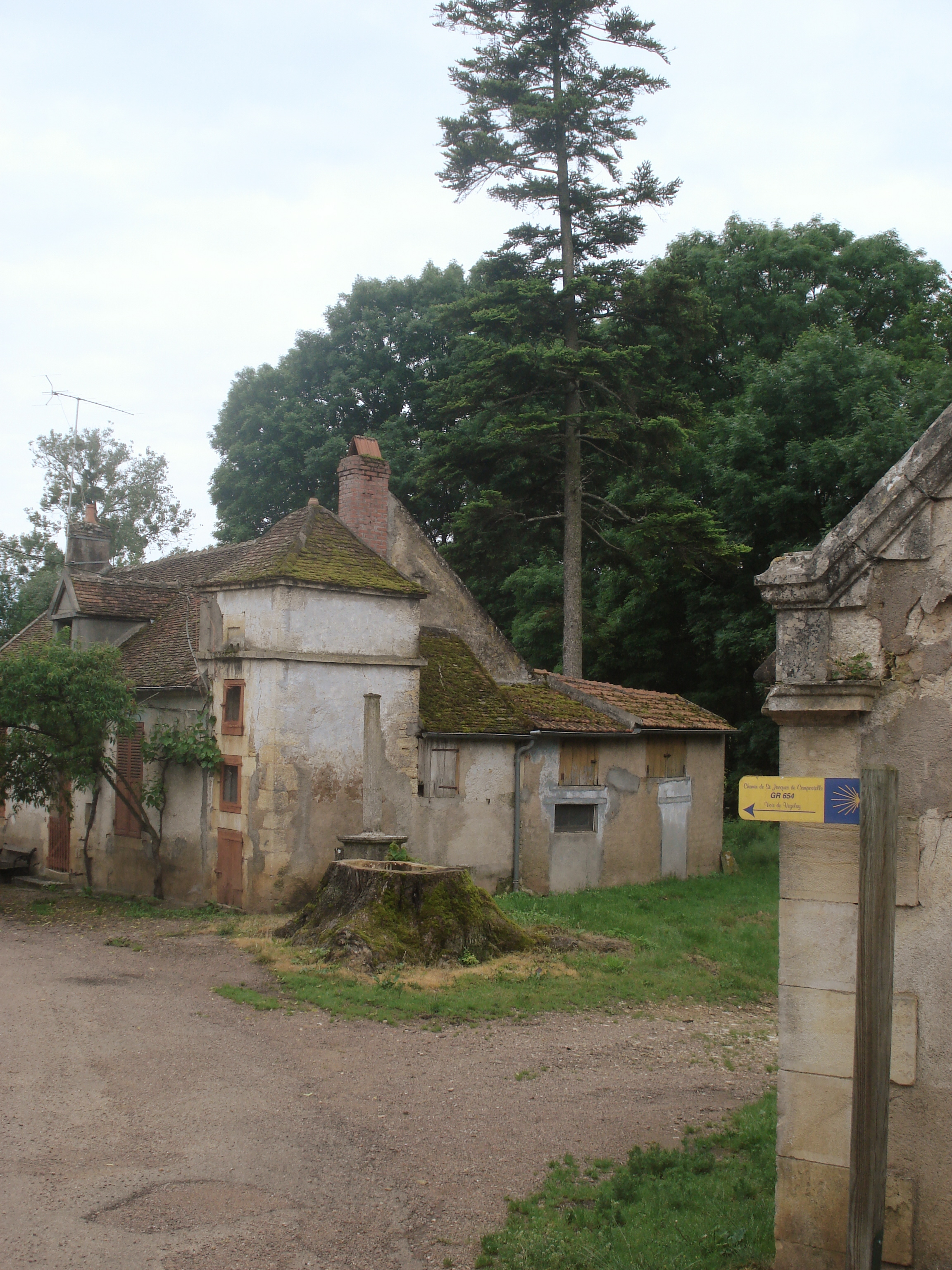 the pelgrim's road to Compostella at Thurigny, Nièvre, Fr.